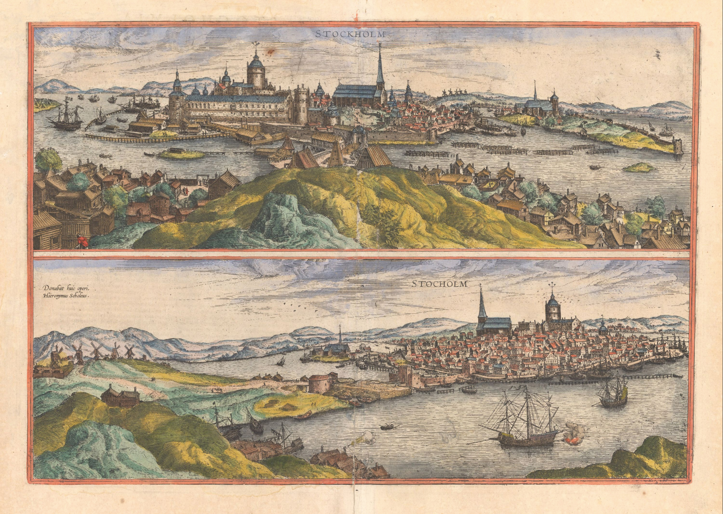 Stockholm viewed from the north (above) and from the south (below). Copperplate by Frans Hogenberg c. 1570.